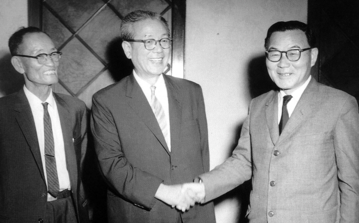 From Left to Right: Kwak Sang-Hoon, then-President of the Chamber of Deputies, Chang Myun, then-Prime Minister and Yun Bo-Seon, then-President of Korea